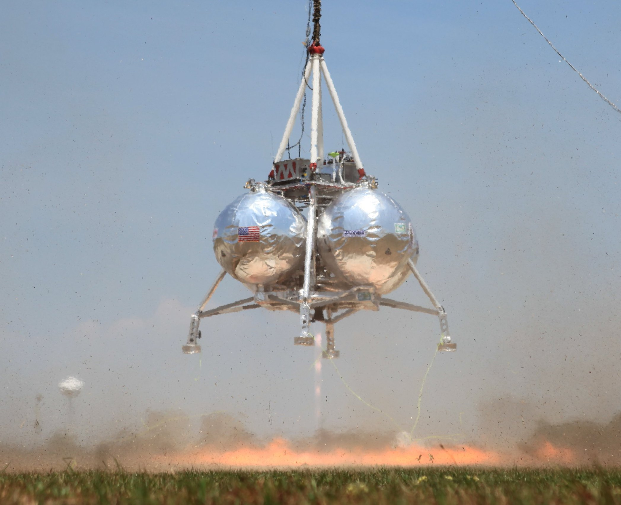 Location: NASA Johnson Space Center, VTB Flight Complex